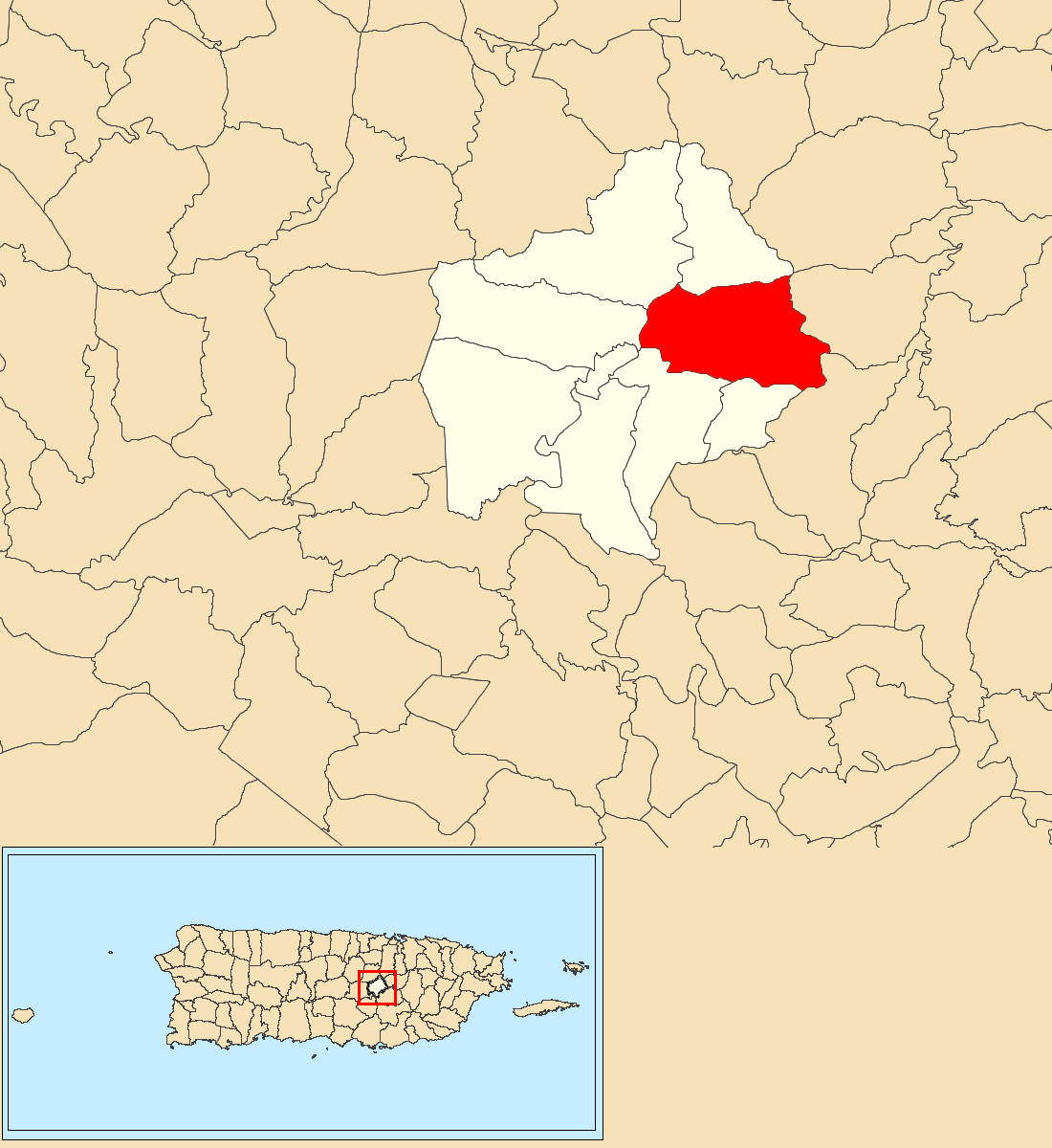 Naranjo, Comerío, Puerto Rico locator map